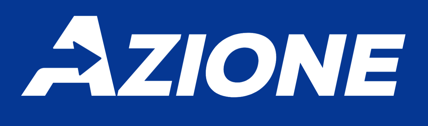 Logo of Azione